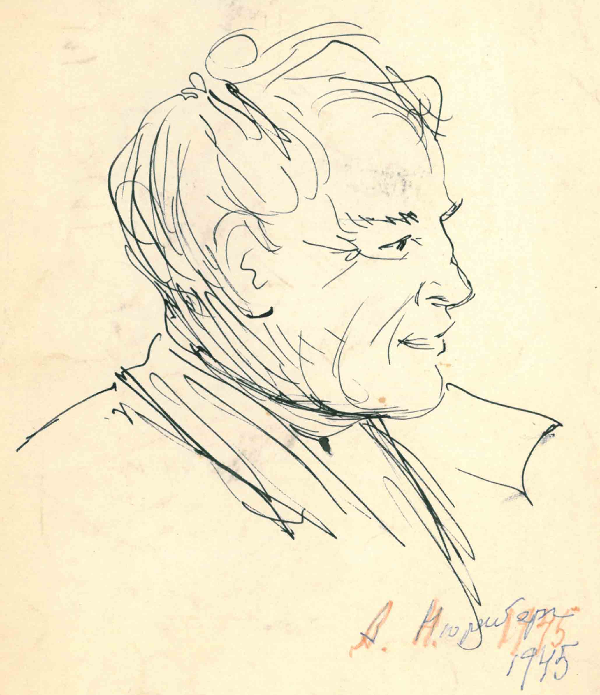 Self-portrait. Indian ink on paper. 25.5 × 18.5 cm (10 × 7.2 in).